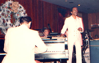 Milt Jackson-Village Jazz Lounge with the Bubba Kolb Trio-late 70's